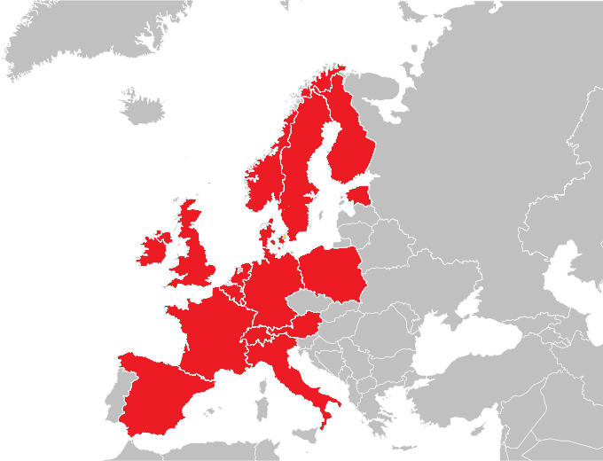 Schmallenberg distribution map Countries with positive cases (red) Countries with only positive vectors (green)